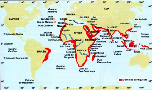 The Portuguese Empire in the XVI century